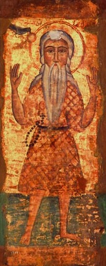 Coptiс icon of S.Paul